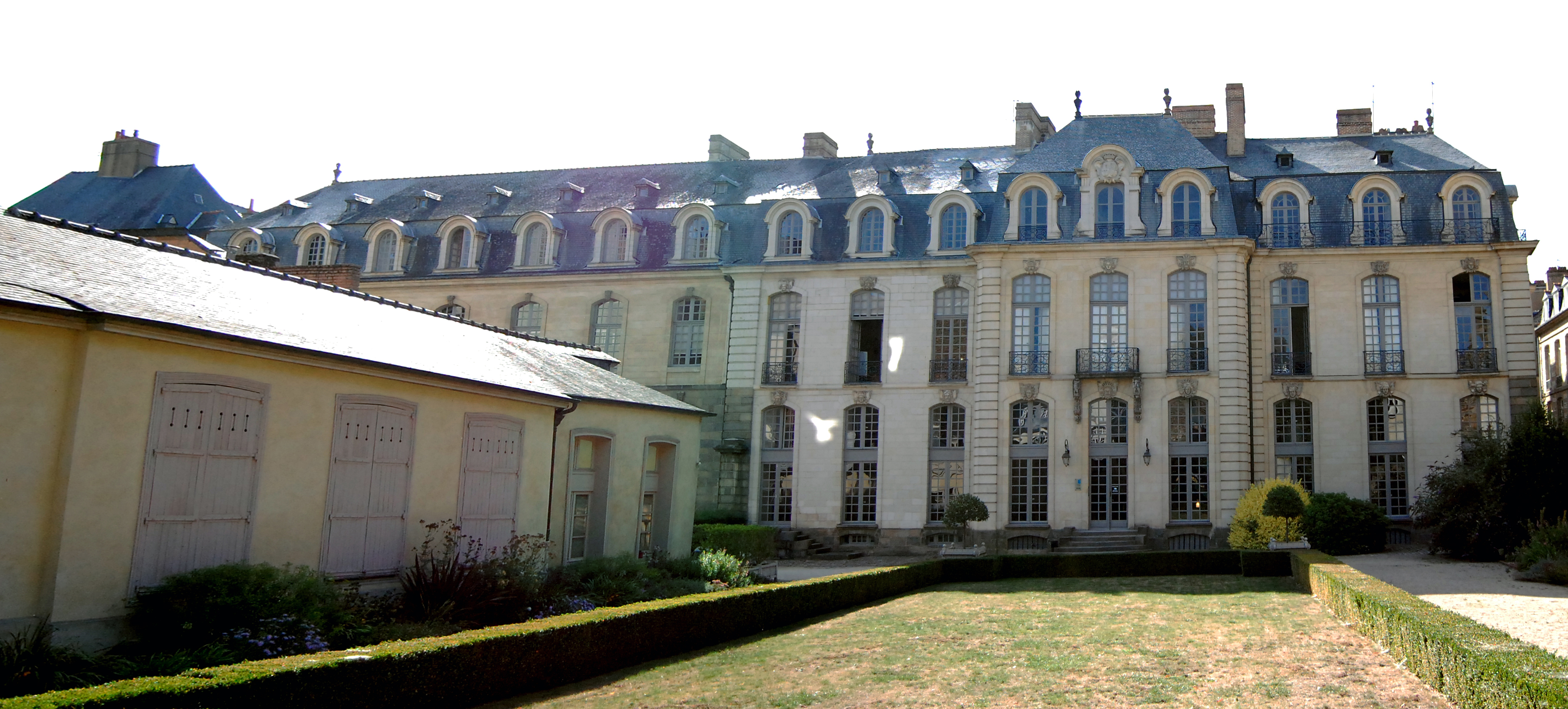 Panorama of the Hôtel de Blossac from the garden.